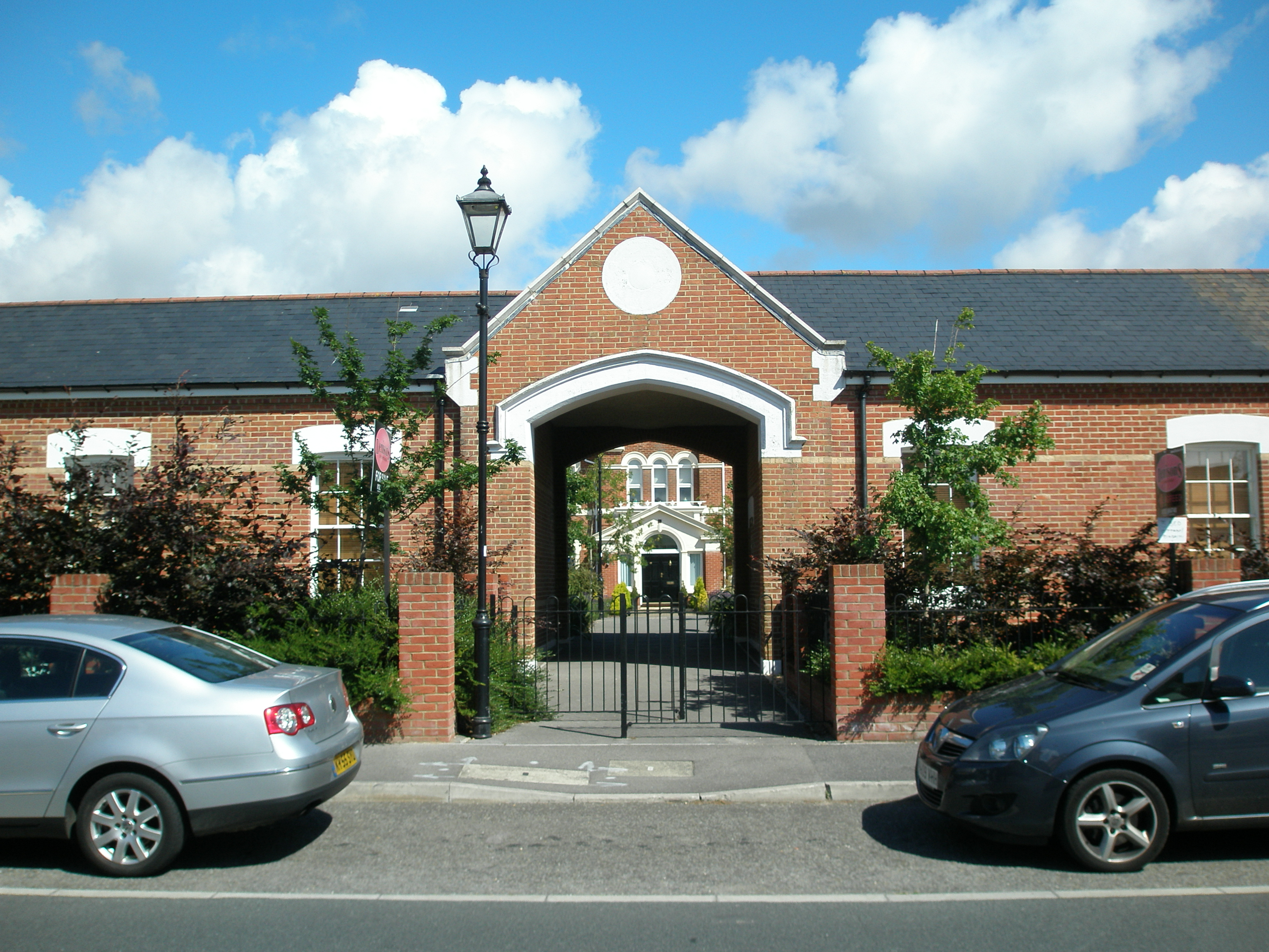 The second town workhouse in Christchurch, Dorset. Built in 1881 to replace the original workhouse in Quay Road. In 1948, after the introduction of the Welfare State, the workhouse became the town hospital which is still open although a large part was given over to housing in 1995. This block and the block beyond are now flats.